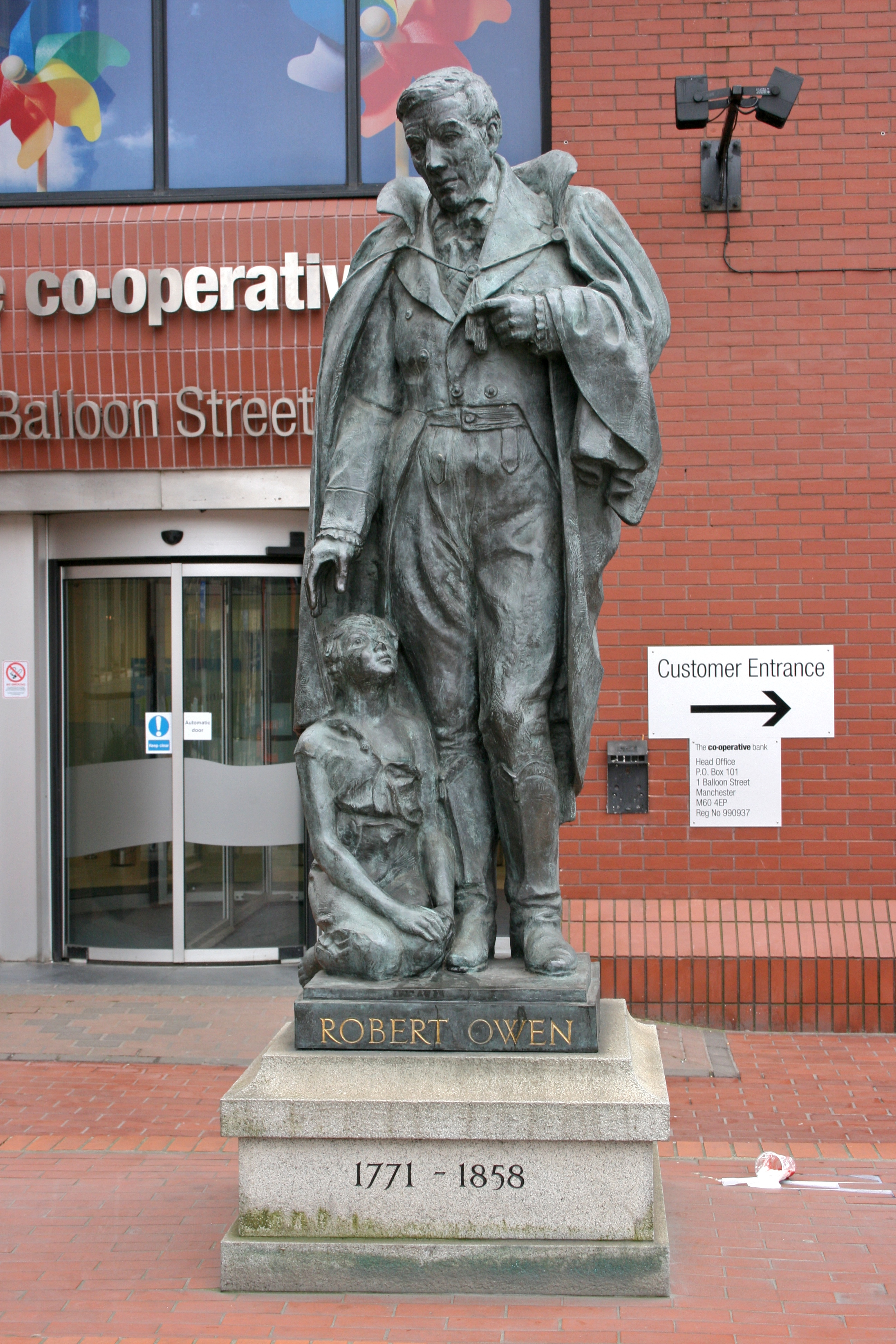 A statue of Robert Owen in Balloon Street, Manchester.